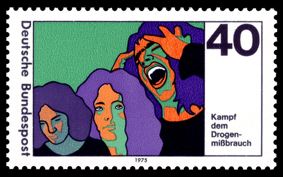 prevention an aid against drug addiction